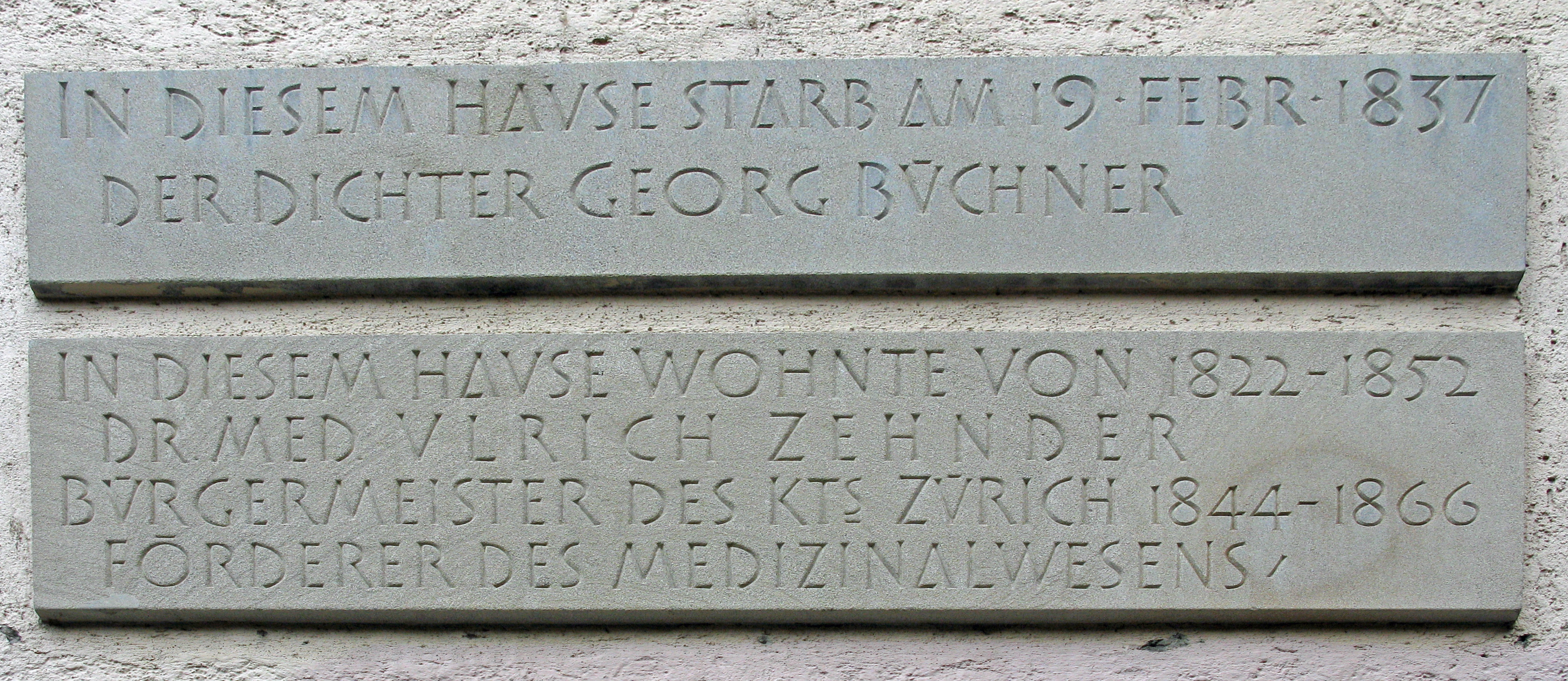 Memorial plaque at house Spiegelgasse 12, Zürich, where Georg Büchner died. Gedenktafel am Haus Spiegelgasse 12, Zürich, wo Georg Büchner starb.